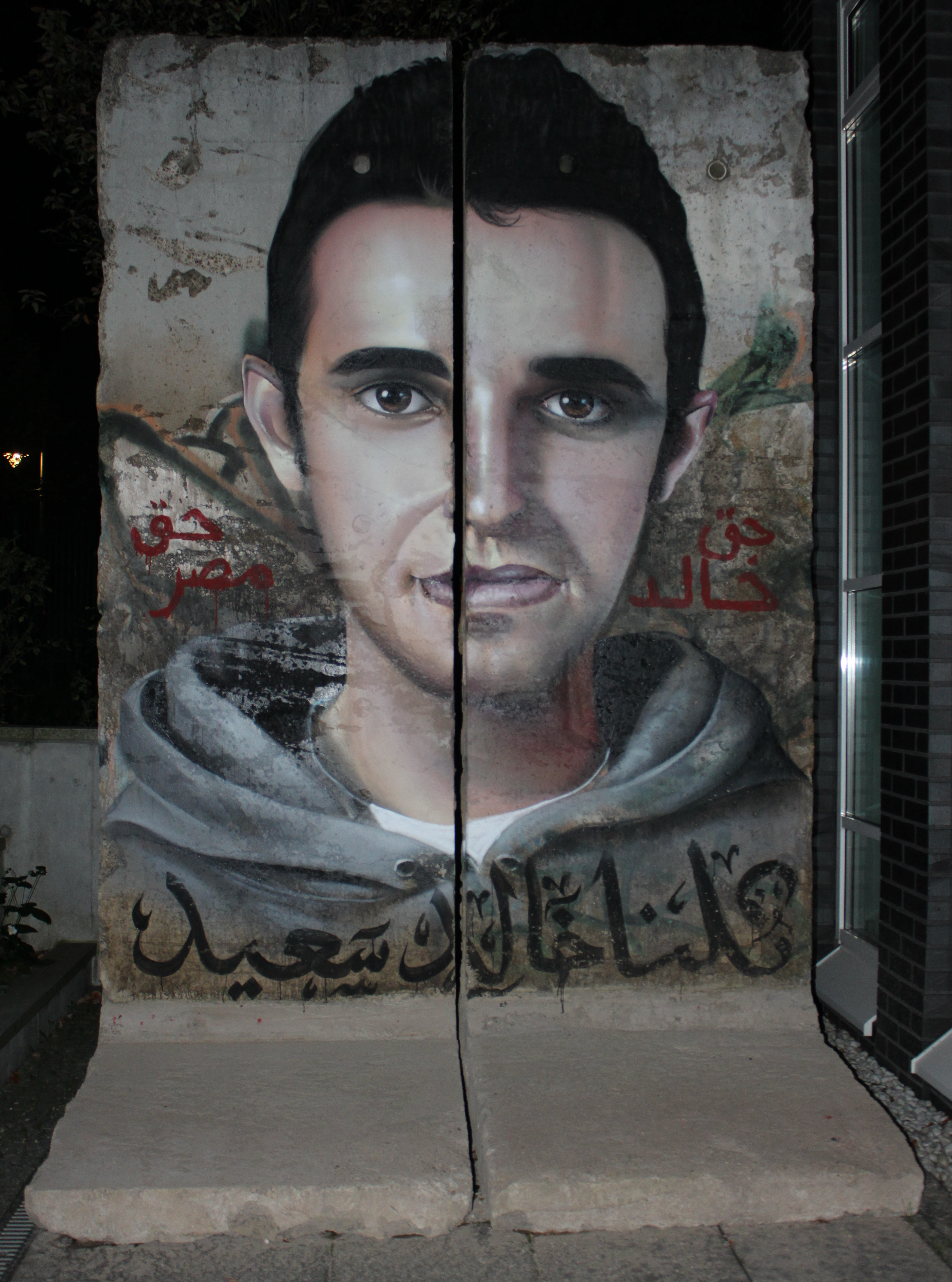 Portrait of Khaled Said on the Berlin Wall